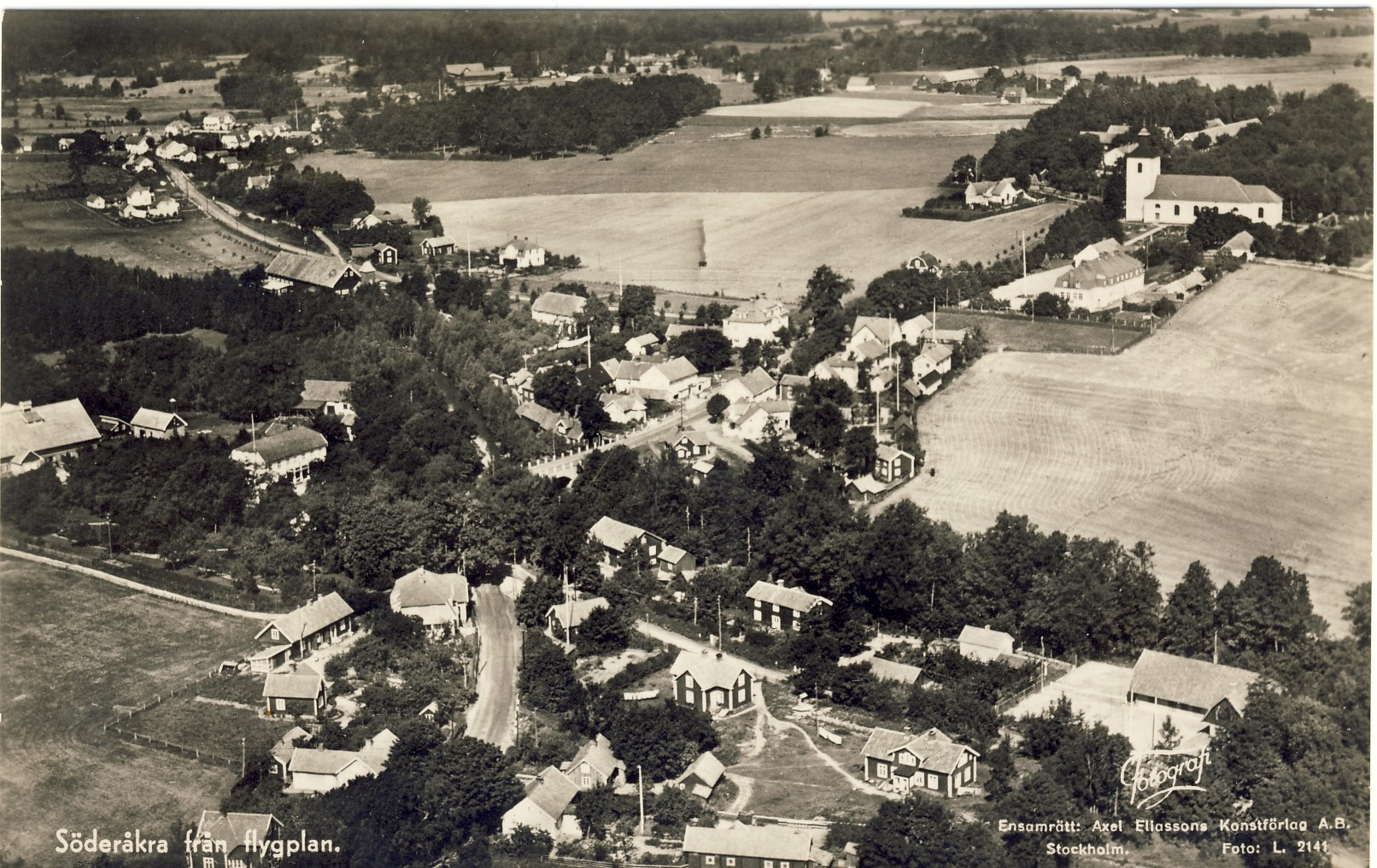 Soderakra from aeroplane